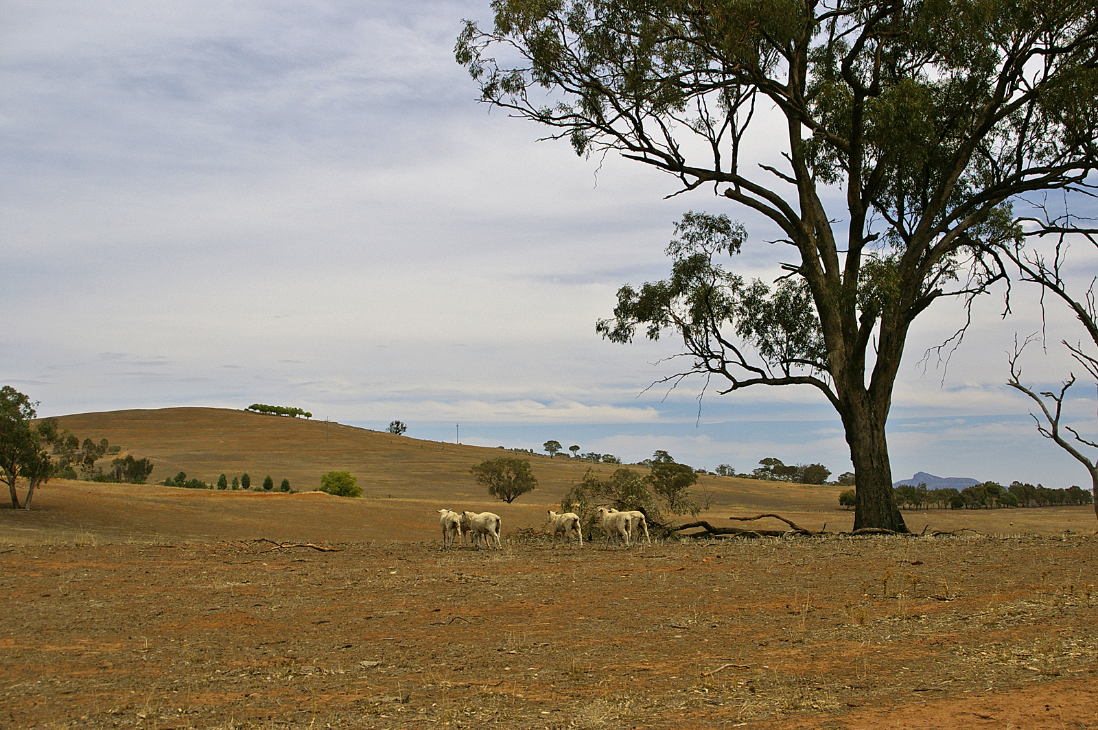 Sheep on a drought-affected paddock near Uranquinty